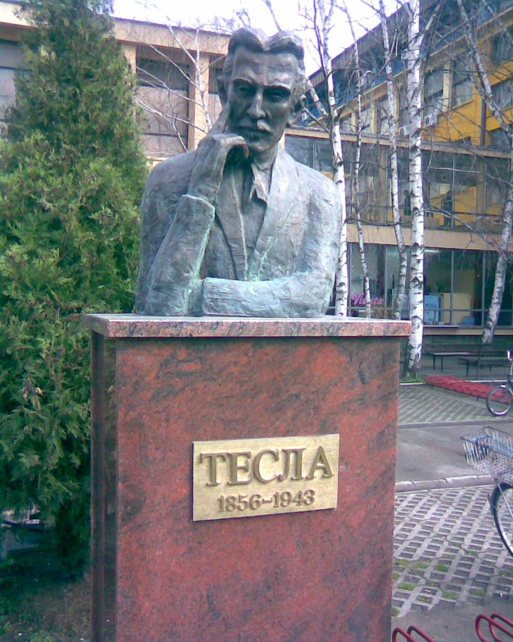 Momument dedicatet to Nikola Tesla in University campus in Novi Sad